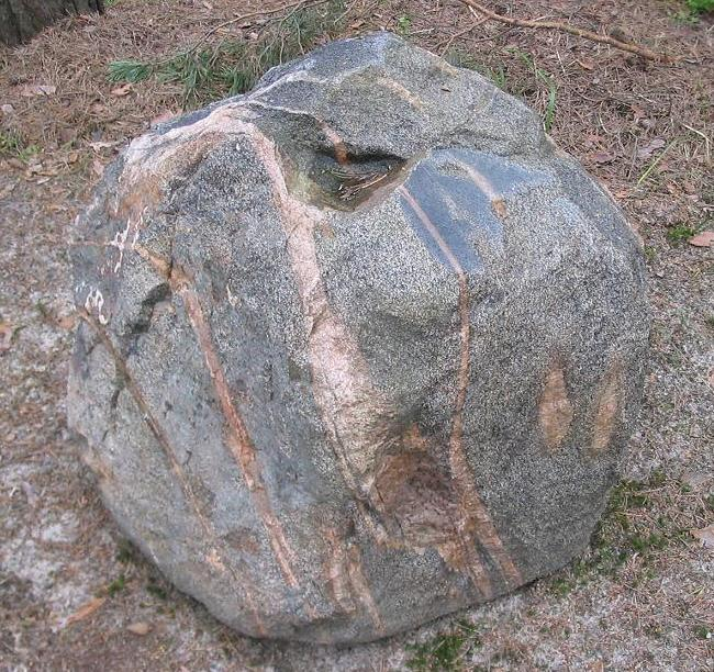 2.000 million years old Gabbro, coming probably from Sweden, in the glacial erratic garden between the villages Klein Briesen and Ragösen in the nature park Naturpark Hoher Fläming. The villages are parts of the town Belzig in the district Potsdam Mittelmark, state Brandenburg, Germany.